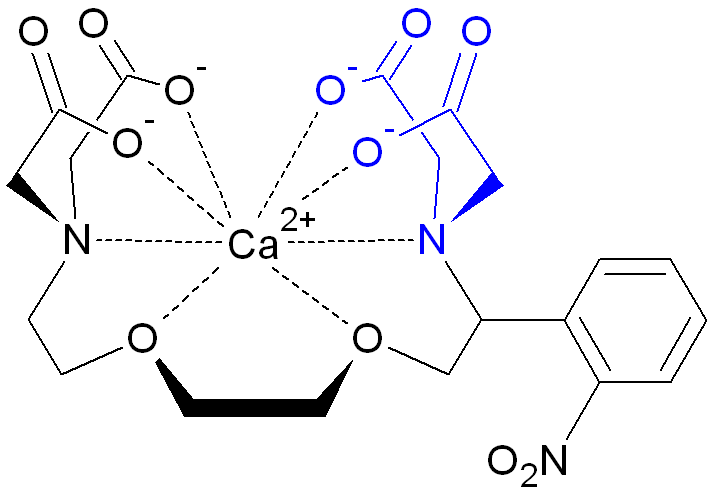 caged calcium